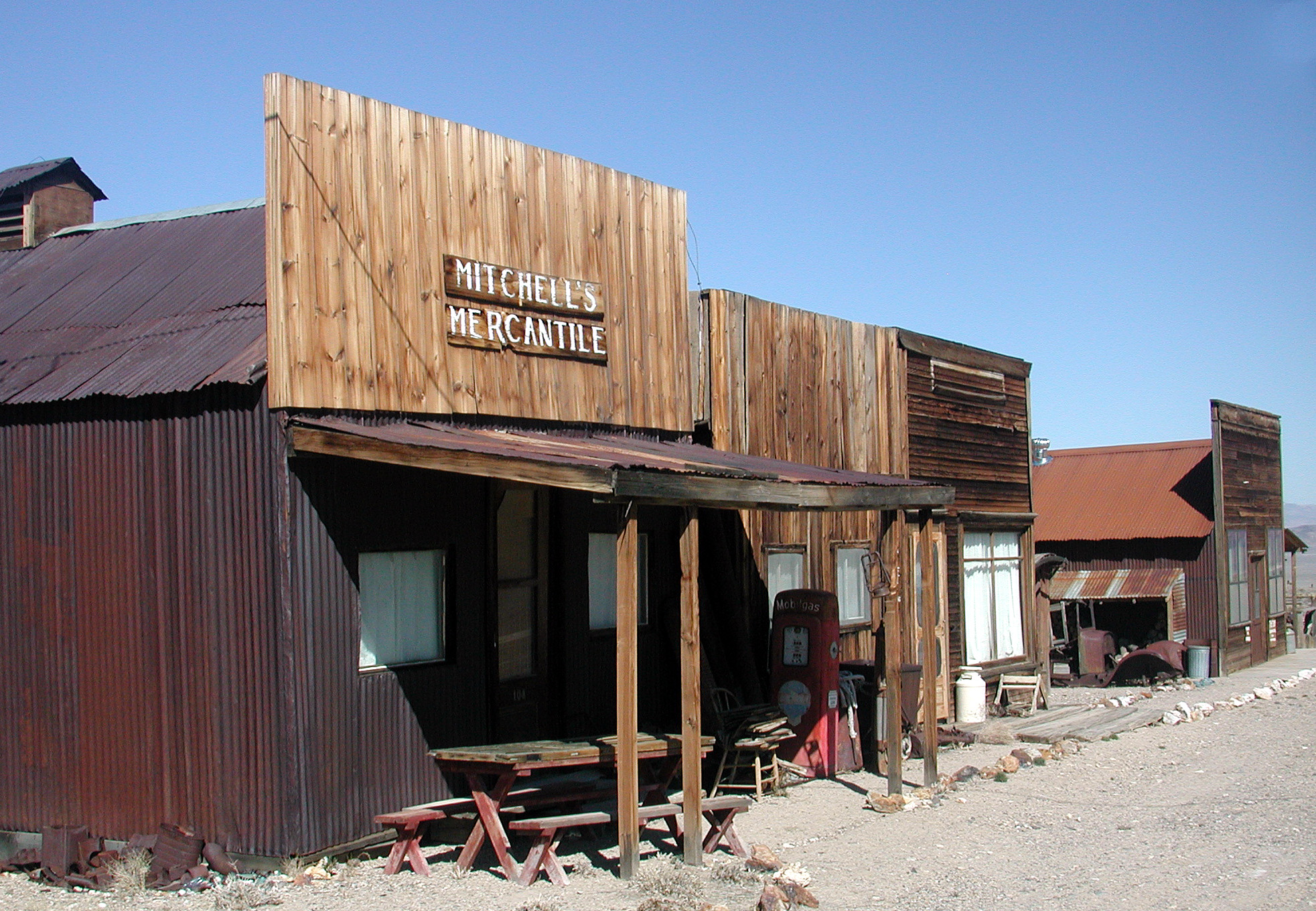 Buildings in the center of the ghost town of Gold Point, Nevada, looking north